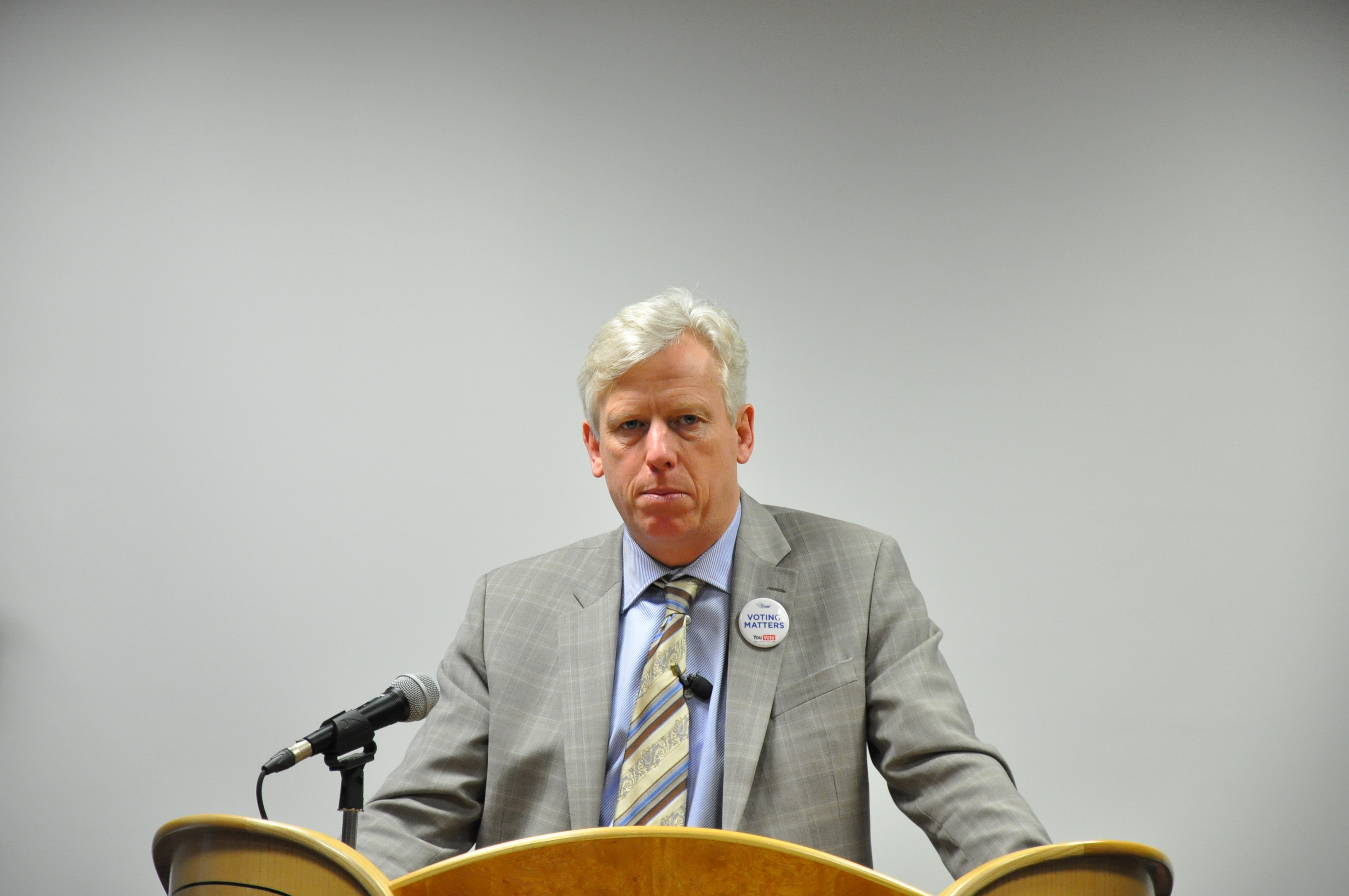 Picture of mayor David Miller speaking at Humber College on March 9, 2010.